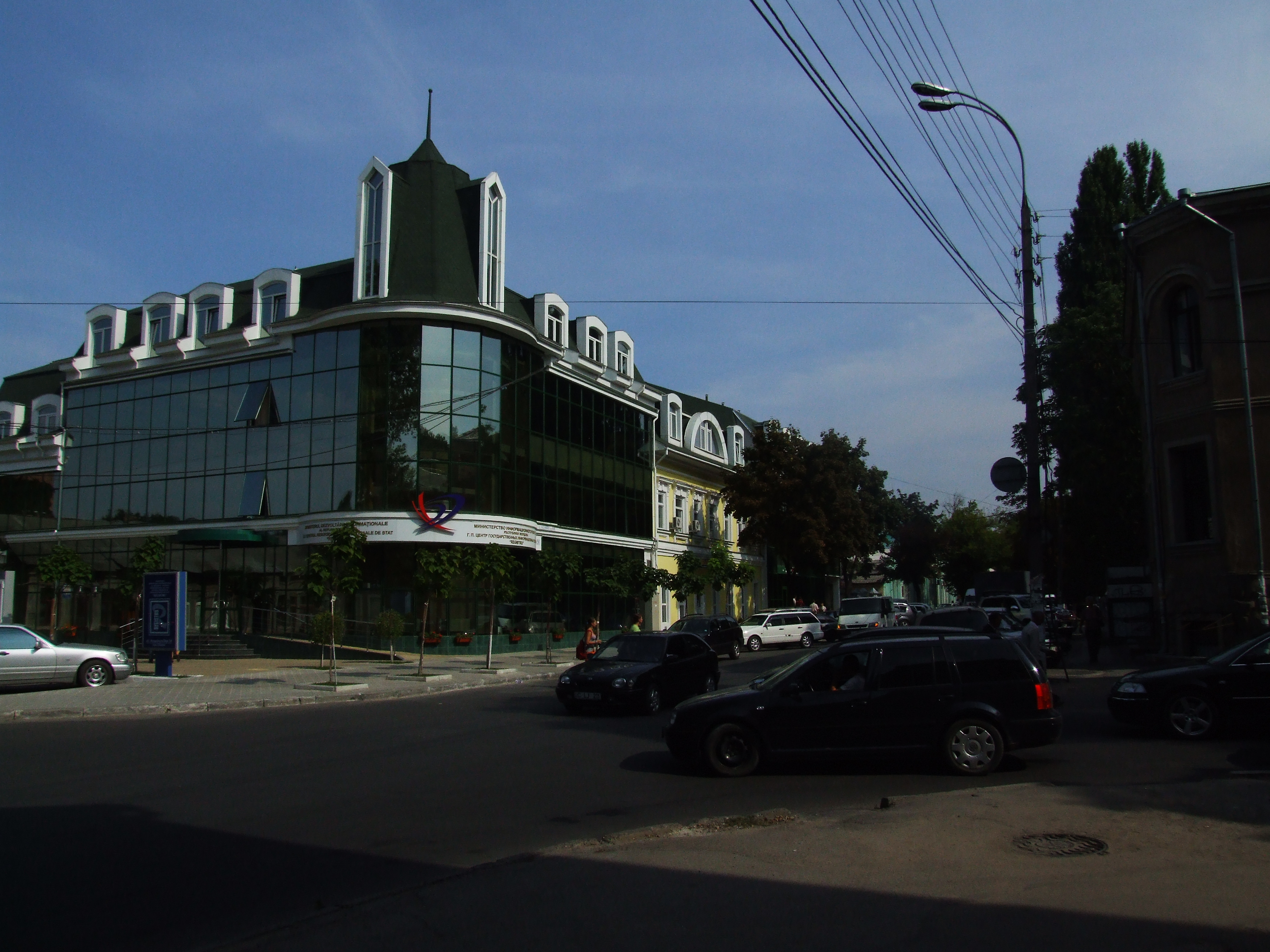 the MInistry of Information - a nice modern building